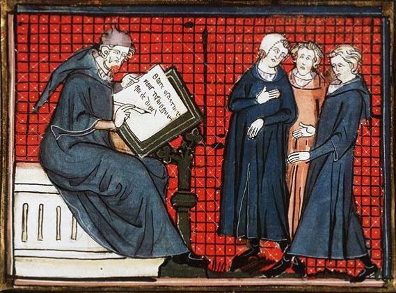 Gautier de Coinci Place of origin, date: Paris, Jean de Senlis (scribe), Fauvel Master (illuminator); 1327 Material: Vellum, ff. 189, 432x317 (300/285x225) mm, 48 lines, littera textualis, Binding: 18th-century brown leather; gilt with coat of arms of Stadholder William V Decoration: 2 three-column miniatures (225x238 and 219x227 mm); 121 two-column miniatures (167/63x172/141 mm); decorated initials with border decoration (ff. 1r, 2v, 5v, 6v, 10r, etc.); penwork initials with pen-flourishes throughout Provenance: ordered in 1327 by King Charles IV of France (d. 1328) from the Parisian `libraire' Thomas de Maubeuge; probably by descent to King Charles V of France (d. 1380) and his son Charles VI (d. 1422); probably purchased in 1424 by John Plantagenet, Duke of Bedford. Probablyacquired by the Counts of Nassau Engelbert II (d. 1504) or Henry III (d. 1538); by descent to the Princes of Orange-Nassau, the later Stadholders, at The Hague; sold in 1749 at the sale of the Orange-Nassau library at P. van Cleef & D. Monnier, The Hague (cat. 1 Dec., p. 214 no. 34);where bought by a Van Haaren. Purchased in 1809 as part of the collection of Jacob Visser (1724-1804) of The Hague (Visser no. 97) Annotation: first half with Vie des Saints now: Paris, Bibliothèque Nationale de France, fr. 183